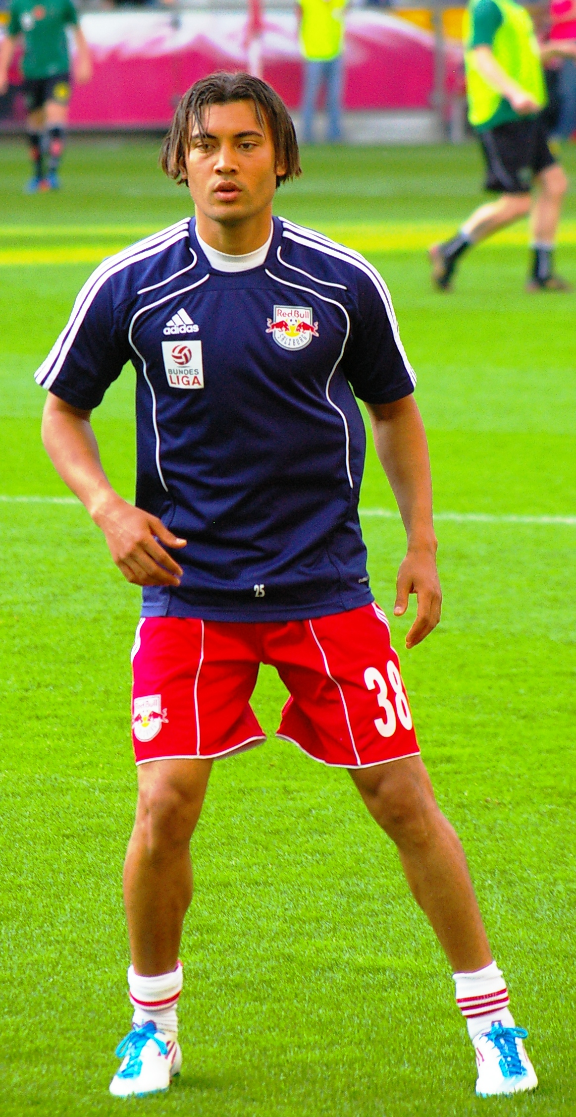 midfielder FC Salzburg